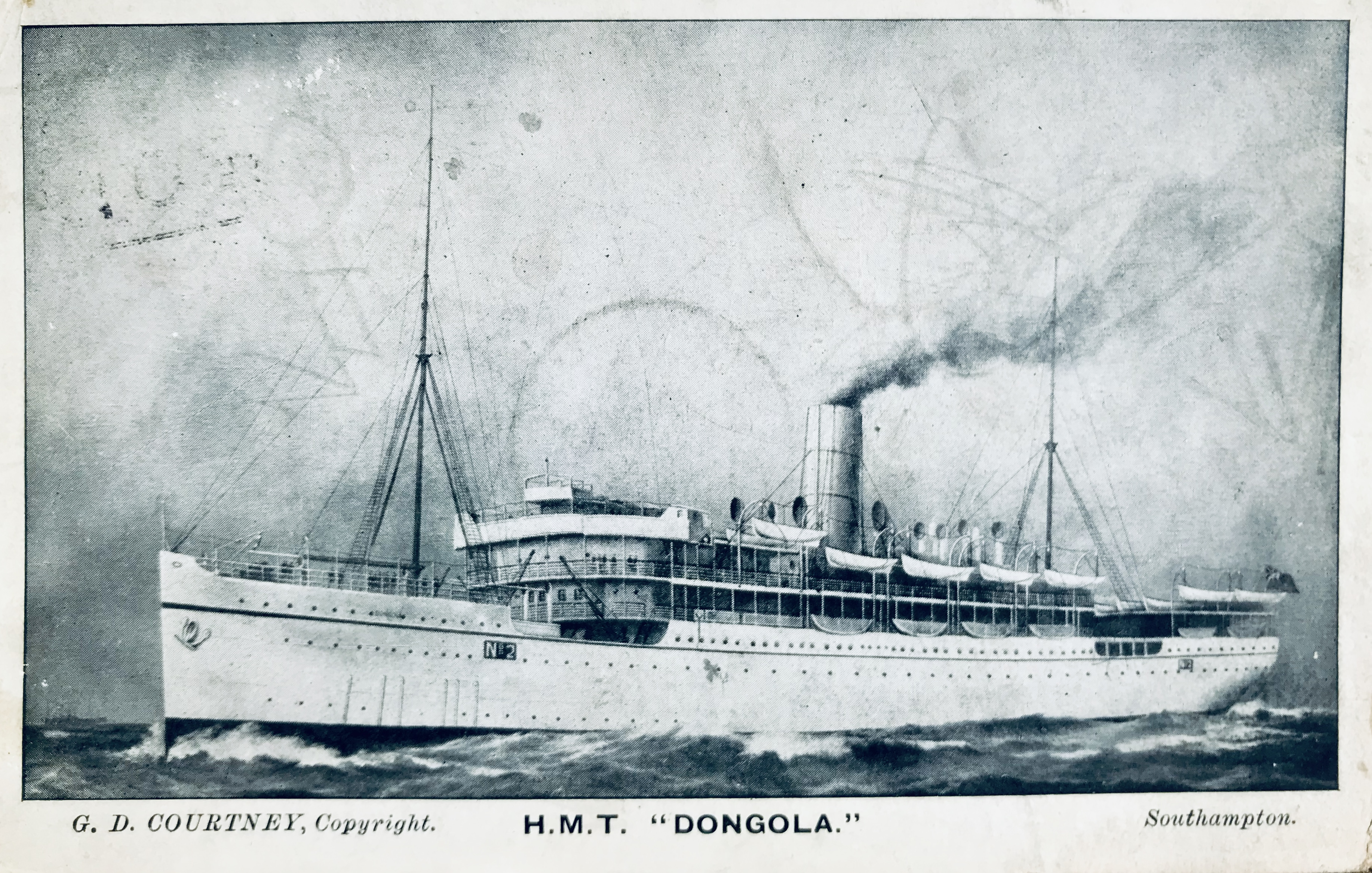 HM Transport Dongola, also known as SS Dongola when not in military use